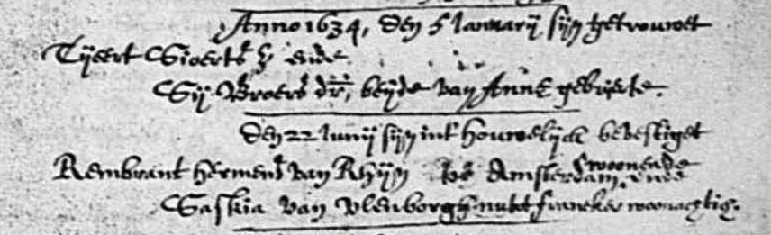 Entry for the marriage of Rembrandt van Rijn and Saskia van Uylenburgh in 1634 from the marriage registration book of the church of Sint Annaparochie (Frisia, The Netherlands).